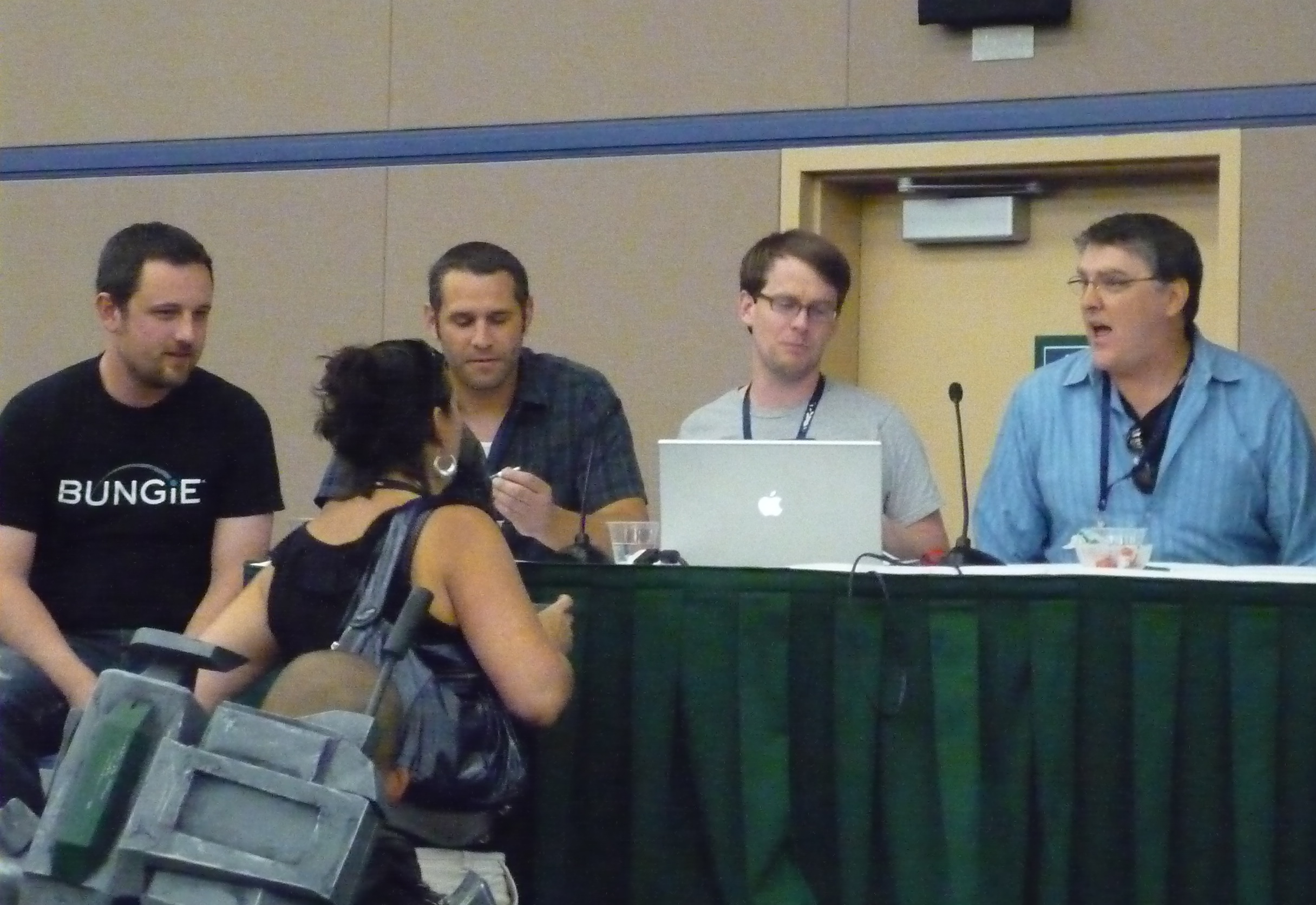 Video game developer Bungie staffers discuss their game, Halo 3: ODST, at Penny Arcade Expo 2009. From left to right: CJ Cowan, director of cinematics; mission designer Paul Bertone; story director Joseph Staten, and composer Martin O'Donnell.